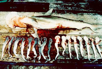 Bonnethead shark (Sphyrna tiburo) with pups